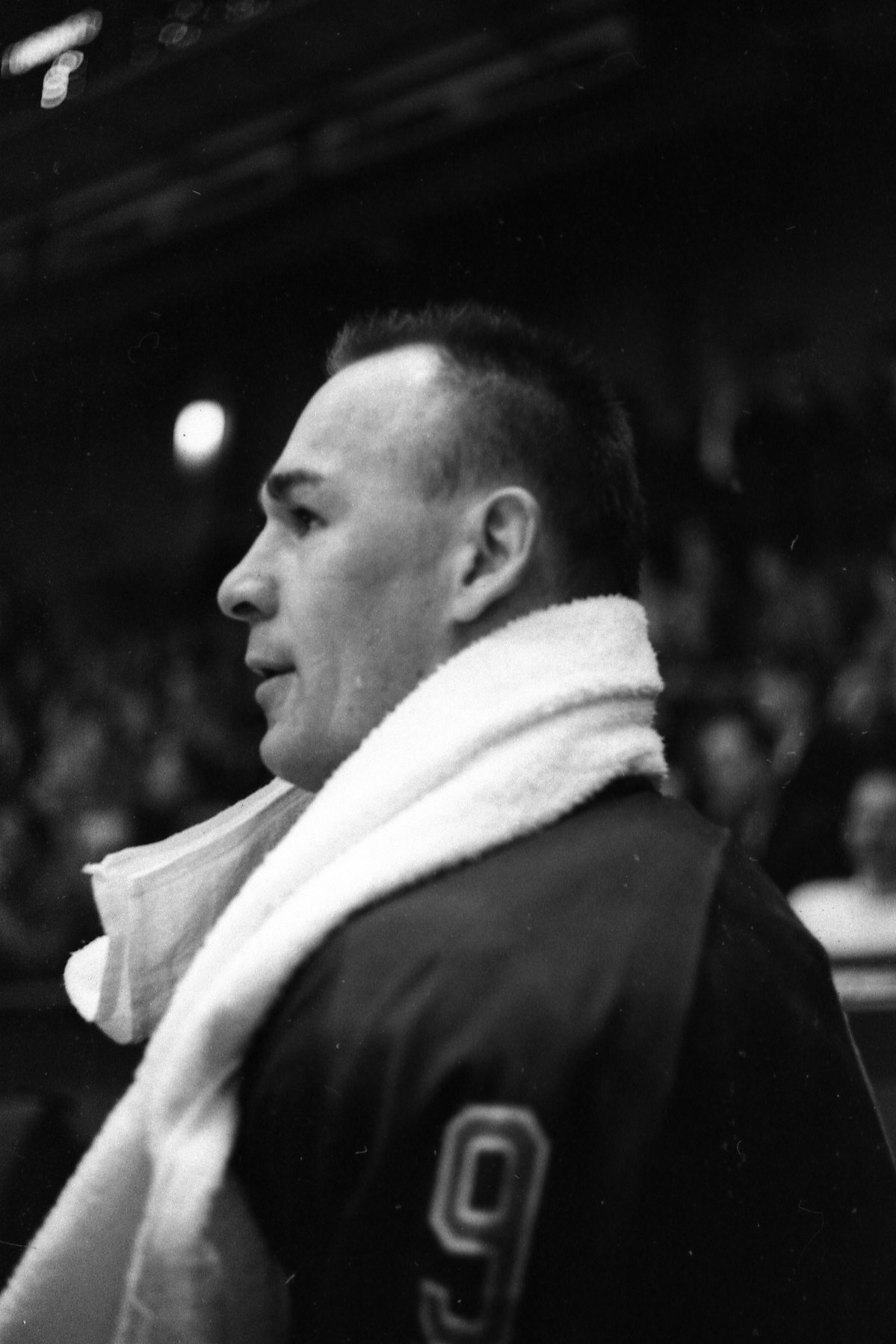 Reggie Fleming, playing for the New York Rangers, sitting in the penalty box at Madison Square Garden, New York City during a game against the Toronto Maple Leafs.